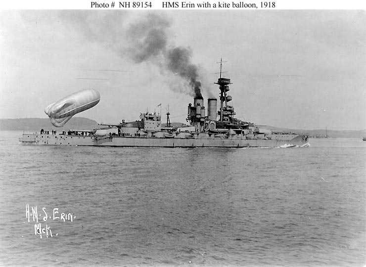 US Department of the Navy caption : "HMS Erin (British Battleship, 1914) Underway in a North Sea harbor, with a kite balloon moored aft, 1918."